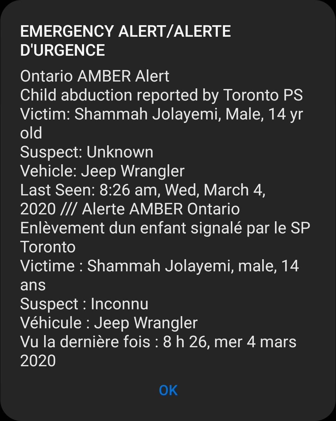 An example of a Ontario AMBER Alert mobile notice on March 4, 2020.